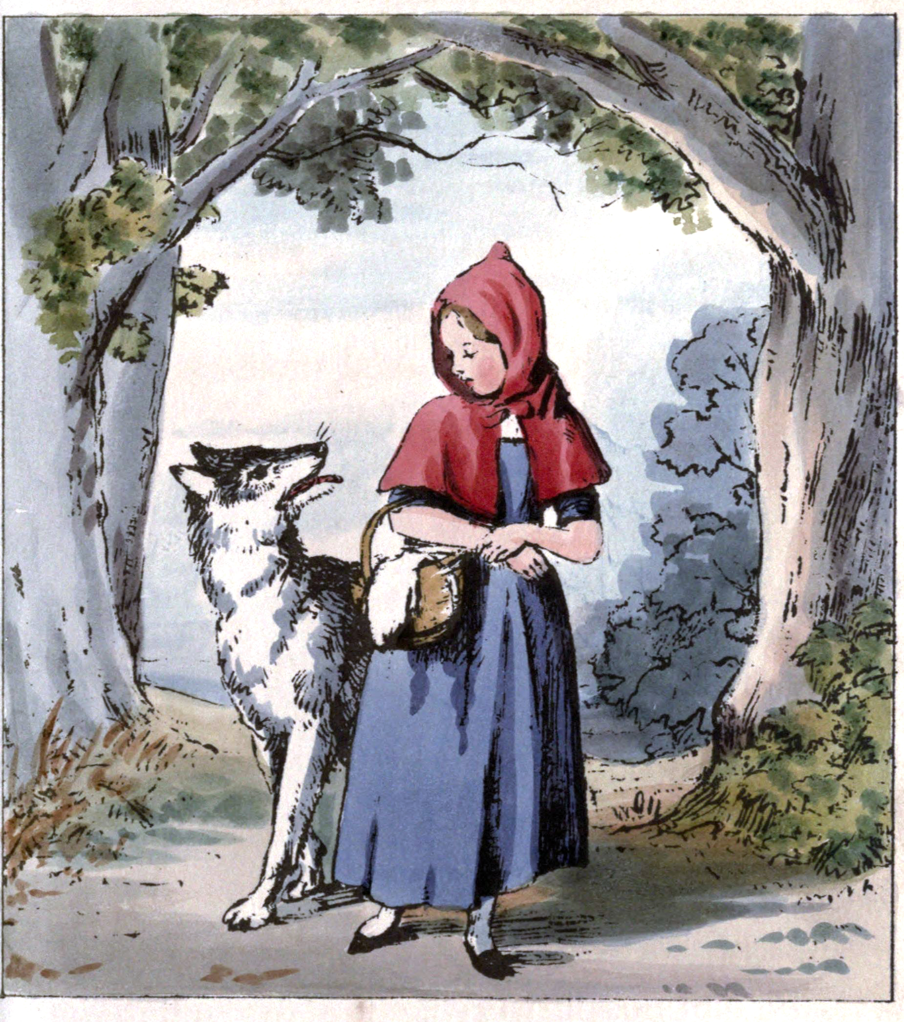 Illustration of the fairy tale “Little Red Riding Hood”